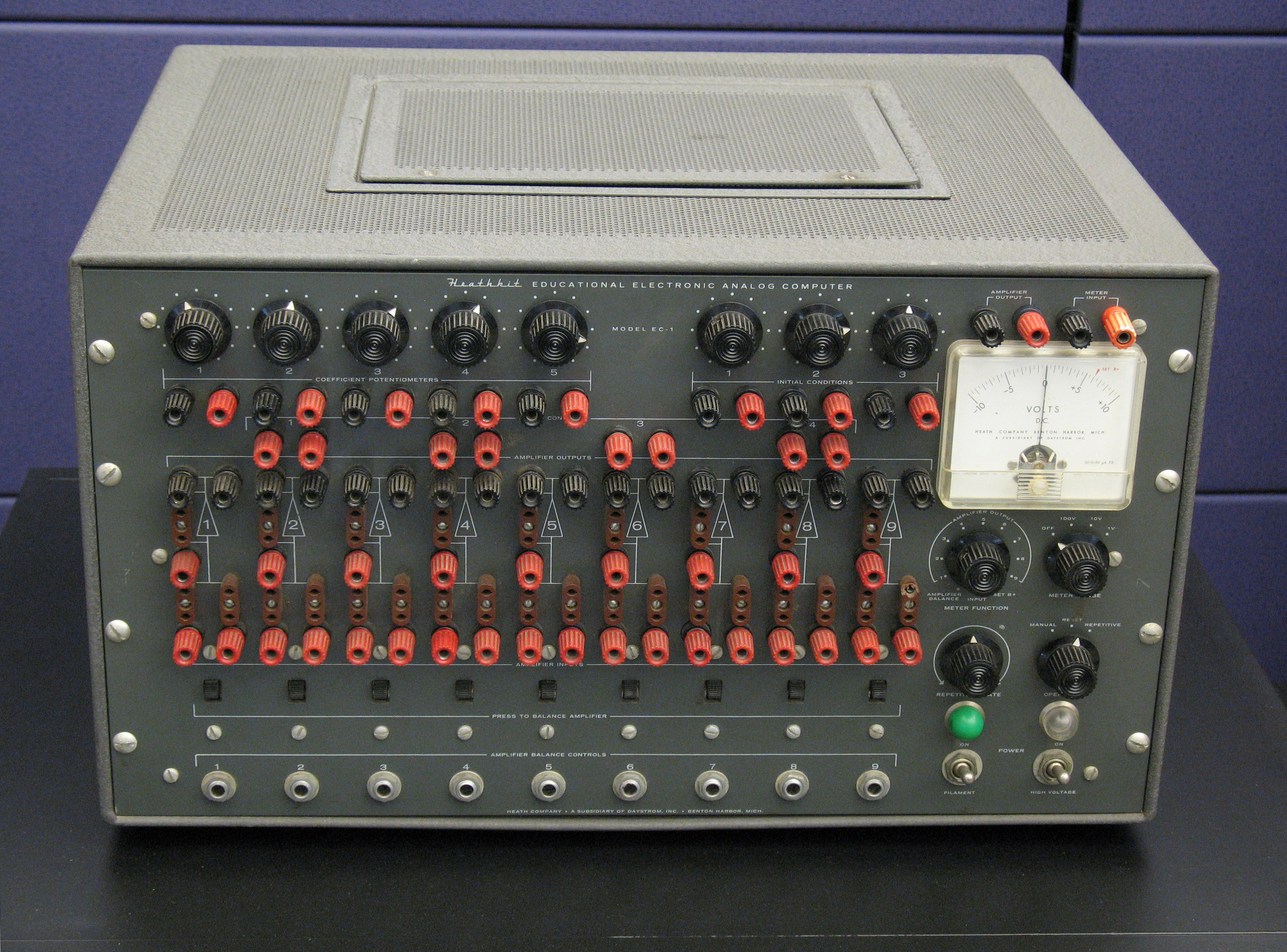 1 The Heathkit EC-1 Educational Analog Computer was introduced in 1960 and could be purchased assembled or as a kit for $400. This was commonly used to educate electrical engineers in analog techniques. Photo by Michael Holley at the Computer History Museum in Mountain View, California. Taken with a Canon PowerShot A630 using existing light on November 4, 2007.